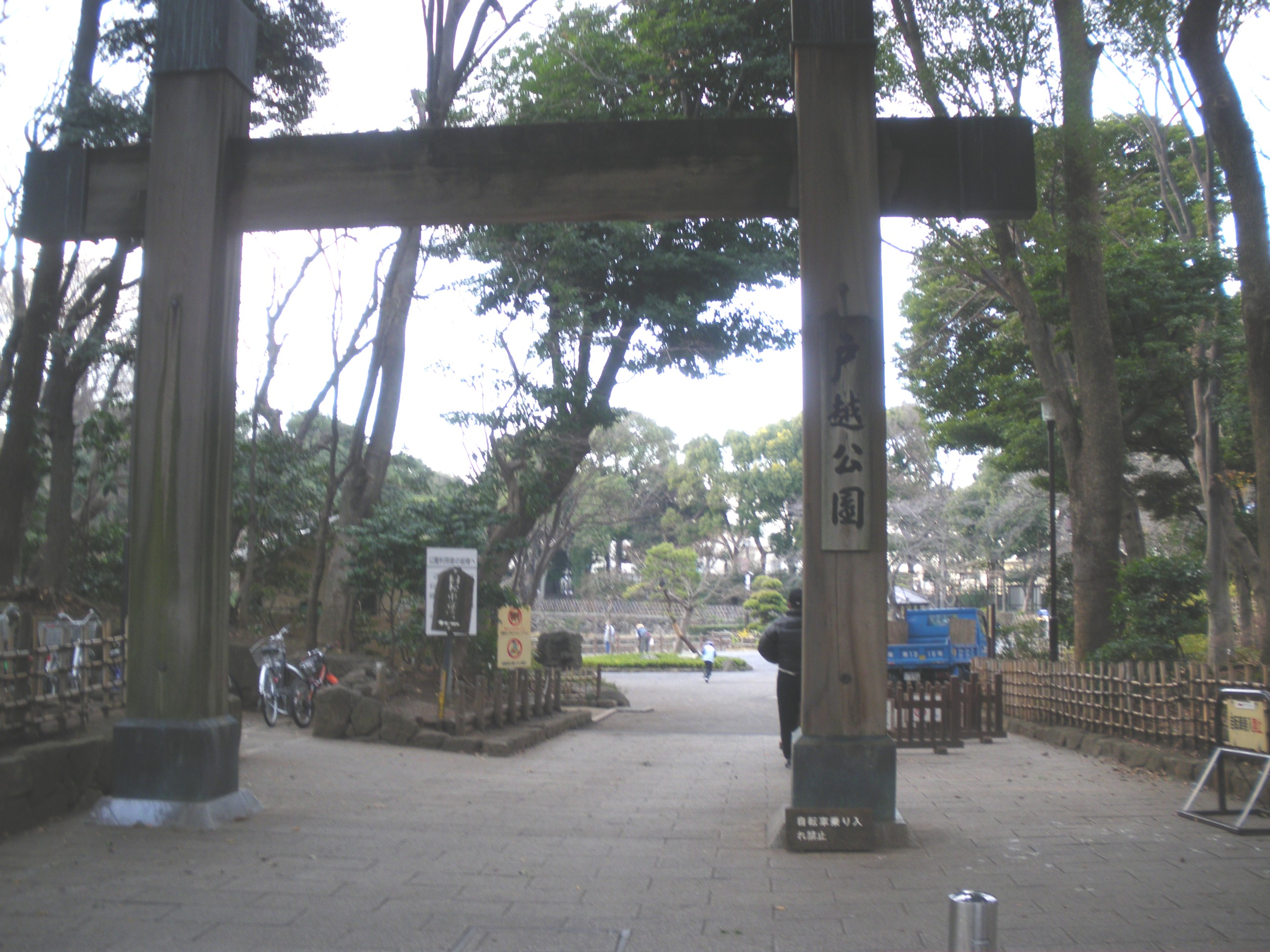 A photo of the Kabuki gate(east gate) of Togoshi park,Yutakacho Shinagawa-ku,Tokyo,Japan.